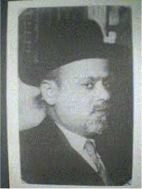 Rabbi Iaacob Mizrahi (1888-1945): first rabbi of the synagogue Or Torah in Buenos Aires